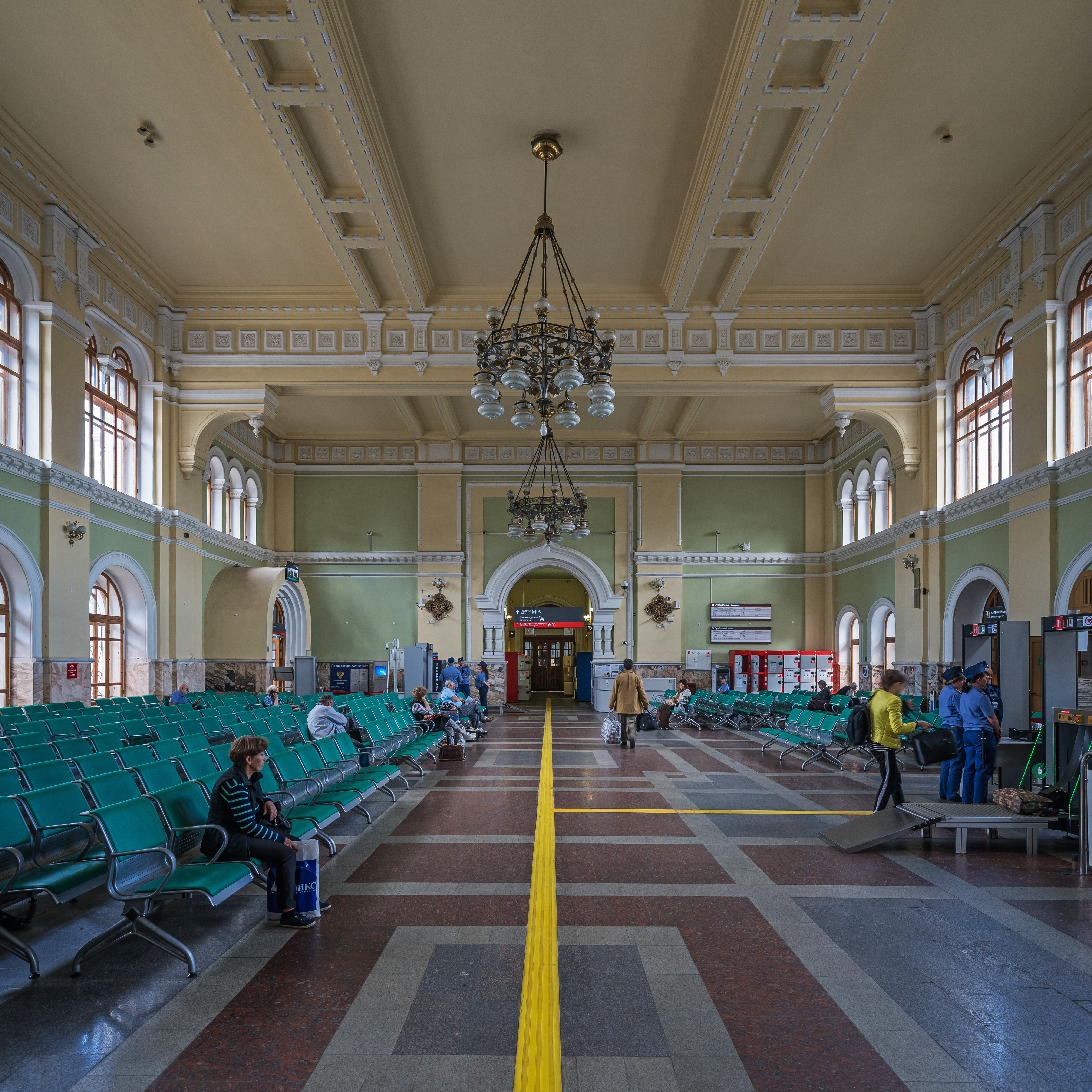 Interior of Rizhsky railway terminal in Moscow, Russia.